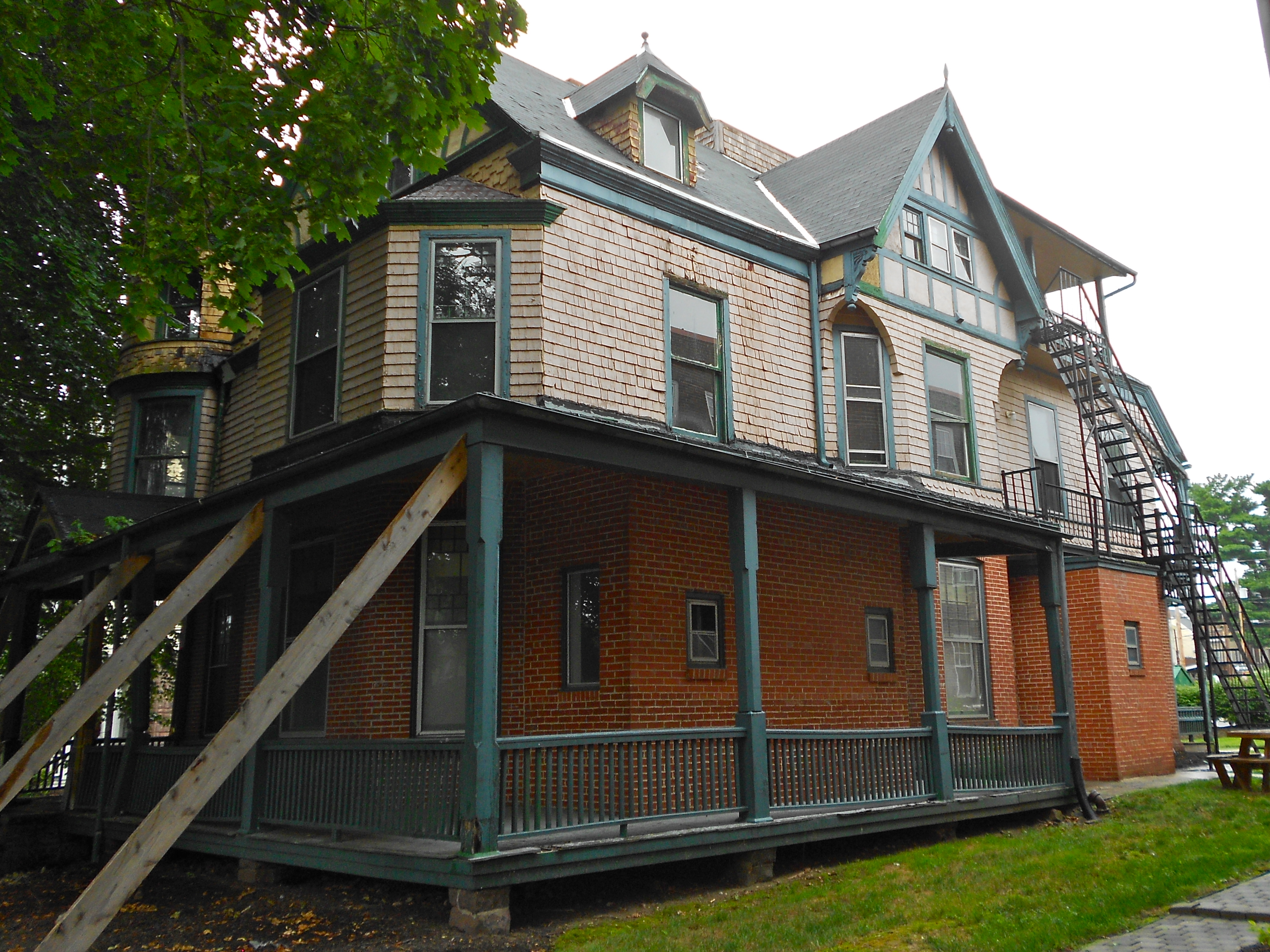 William Donaldson House — at 2005 North 3rd Street, Harrisburg, Dauphin County, Pennsylvania. Undergoing some heavy maintenance in 2013. Listed on the National Register of Historic Places in Dauphin County, Pennsylvania on April 26, 1990. #2003 3rd St. bldg. is also listed on the NRHP